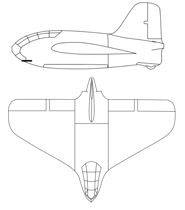 Simple schematic of the Lippisch P.09 rocket version